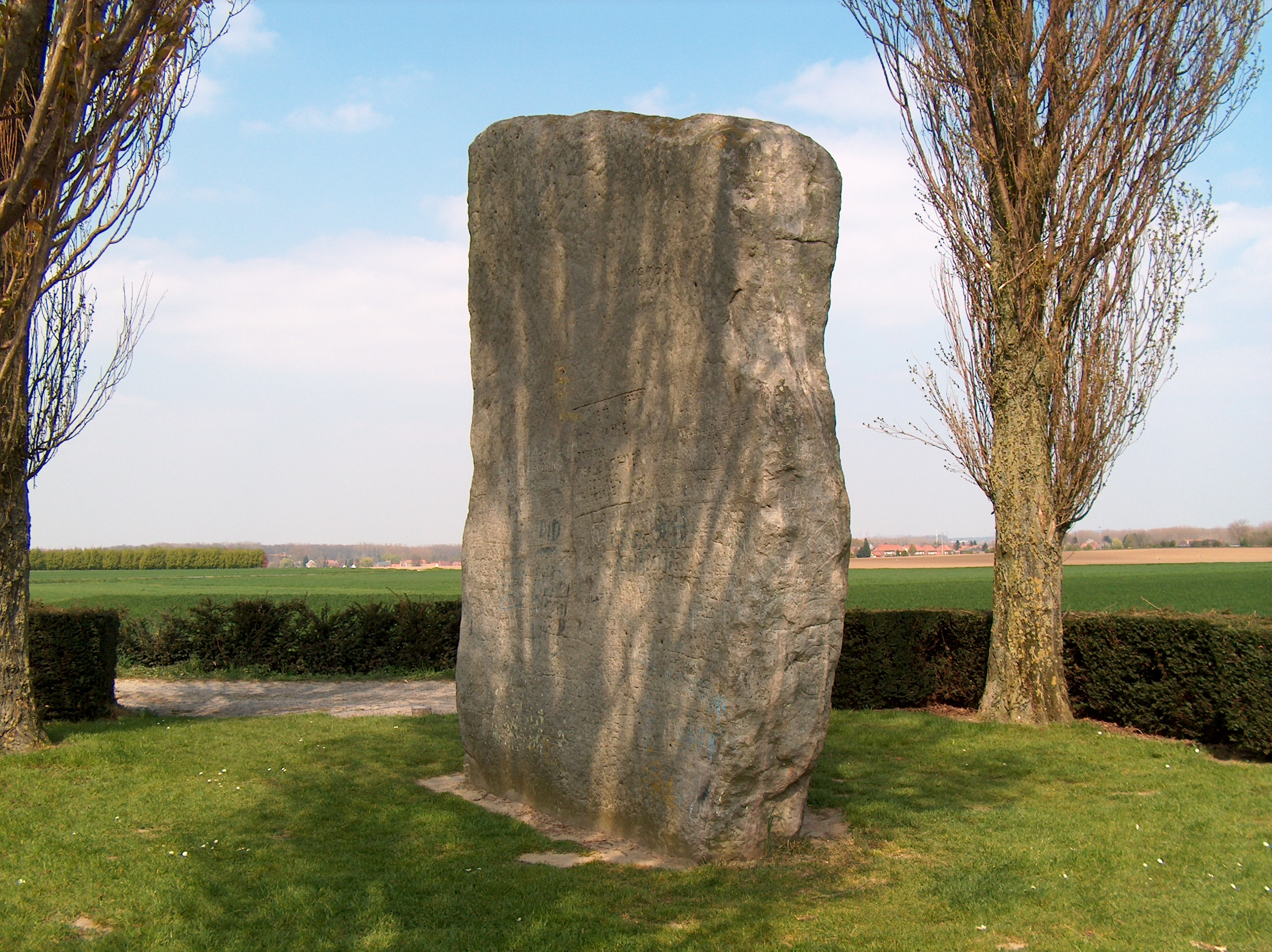 The Pierre Brunehaut megalith, Brunehaut, Hainaut, Belgium.